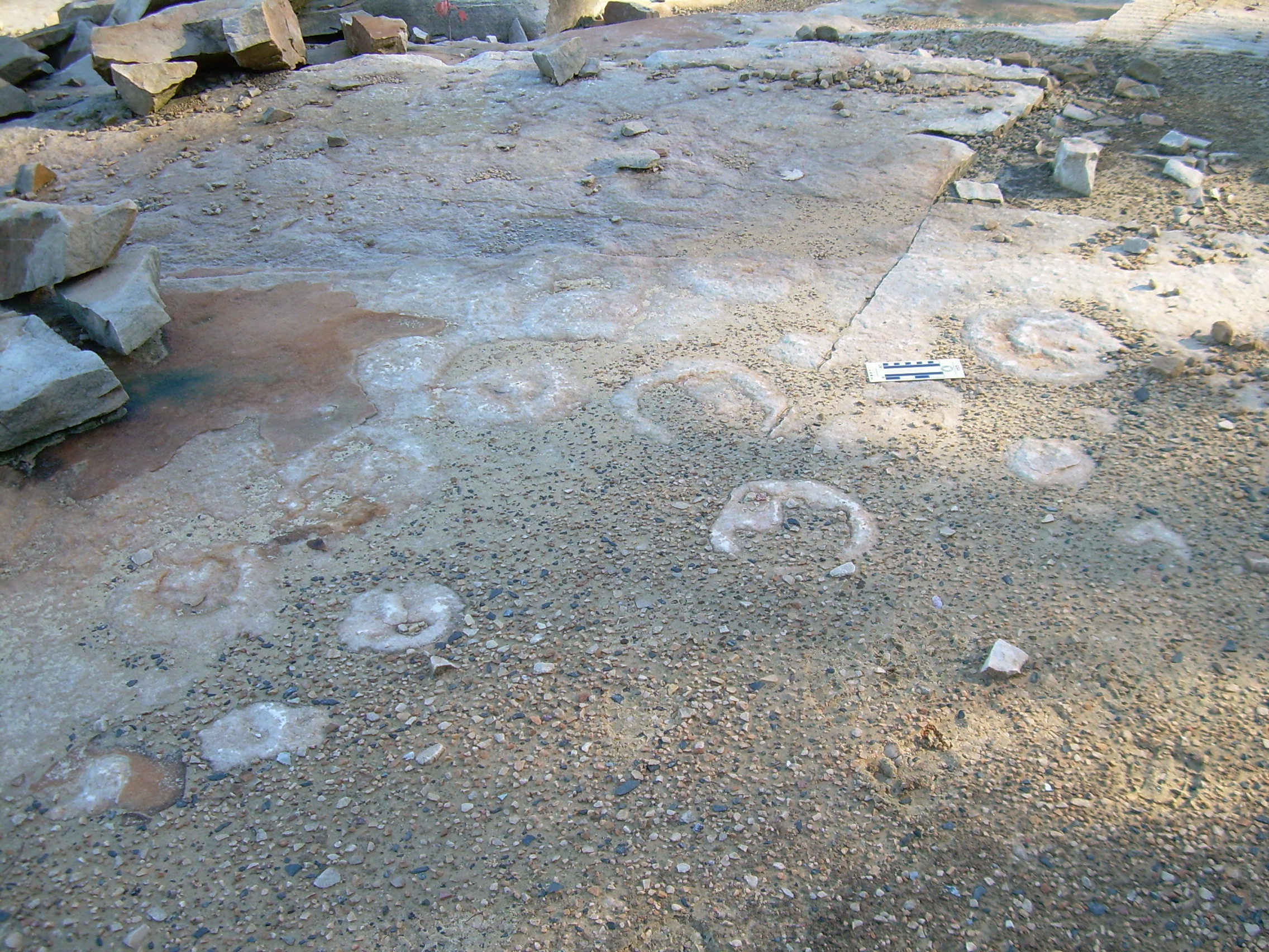 Stranded scyphozoans on a Cambrian tidal flat; Elk Mound Group; Blackberry Hill, Wisconsin; photograph originally published in K.C. Gass, 2015. Solving the Mystery of the First Animals on Land: The Fossils of Blackberry Hill. Siri Scientific Press, Manchester, UK.